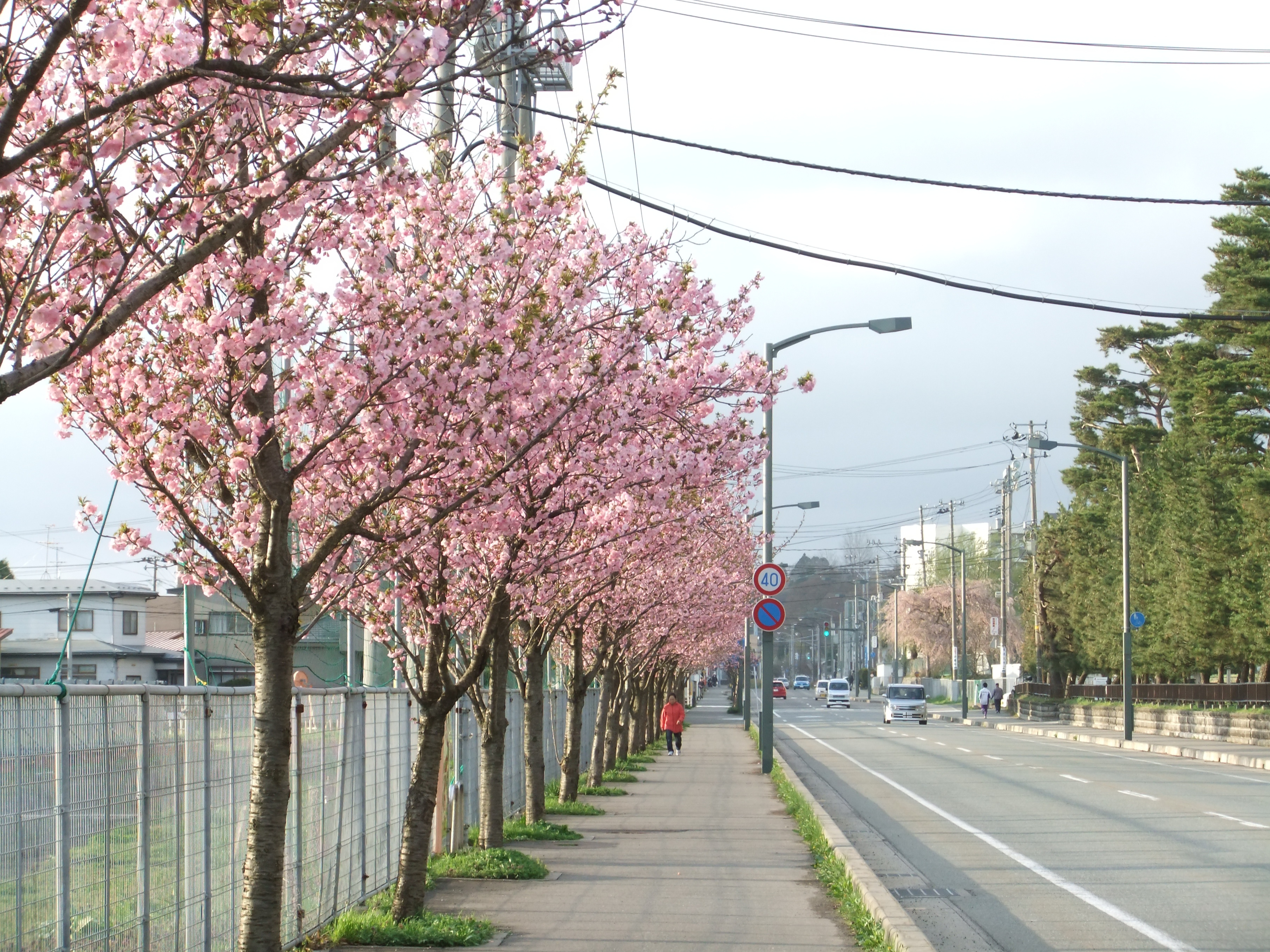 Akita prefectural road #15, with cherry trees in front of Akita university.